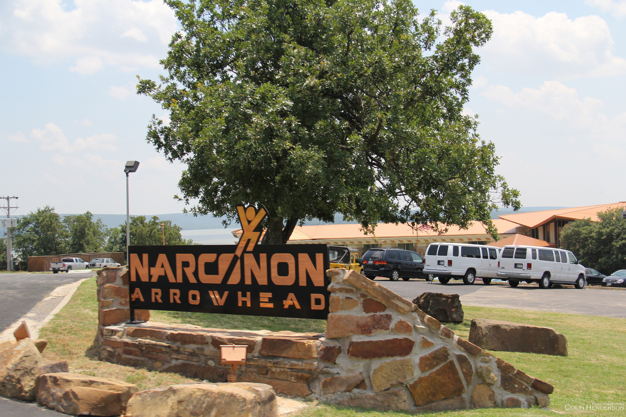 Sign and car park at Narconon Arrowhead, Oklahoma, USA.